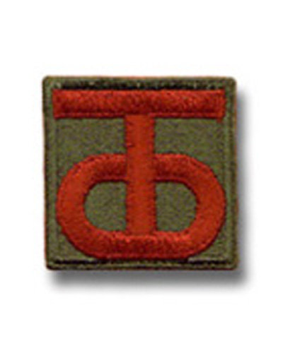 90th Infantry Division